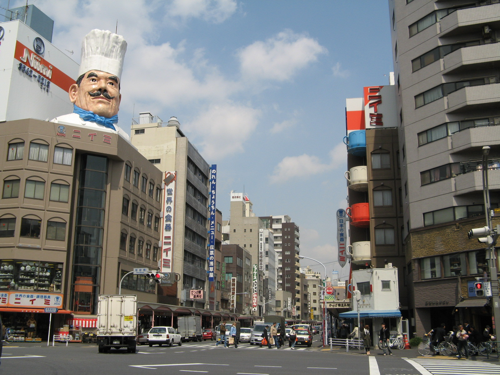 Kappabashi street